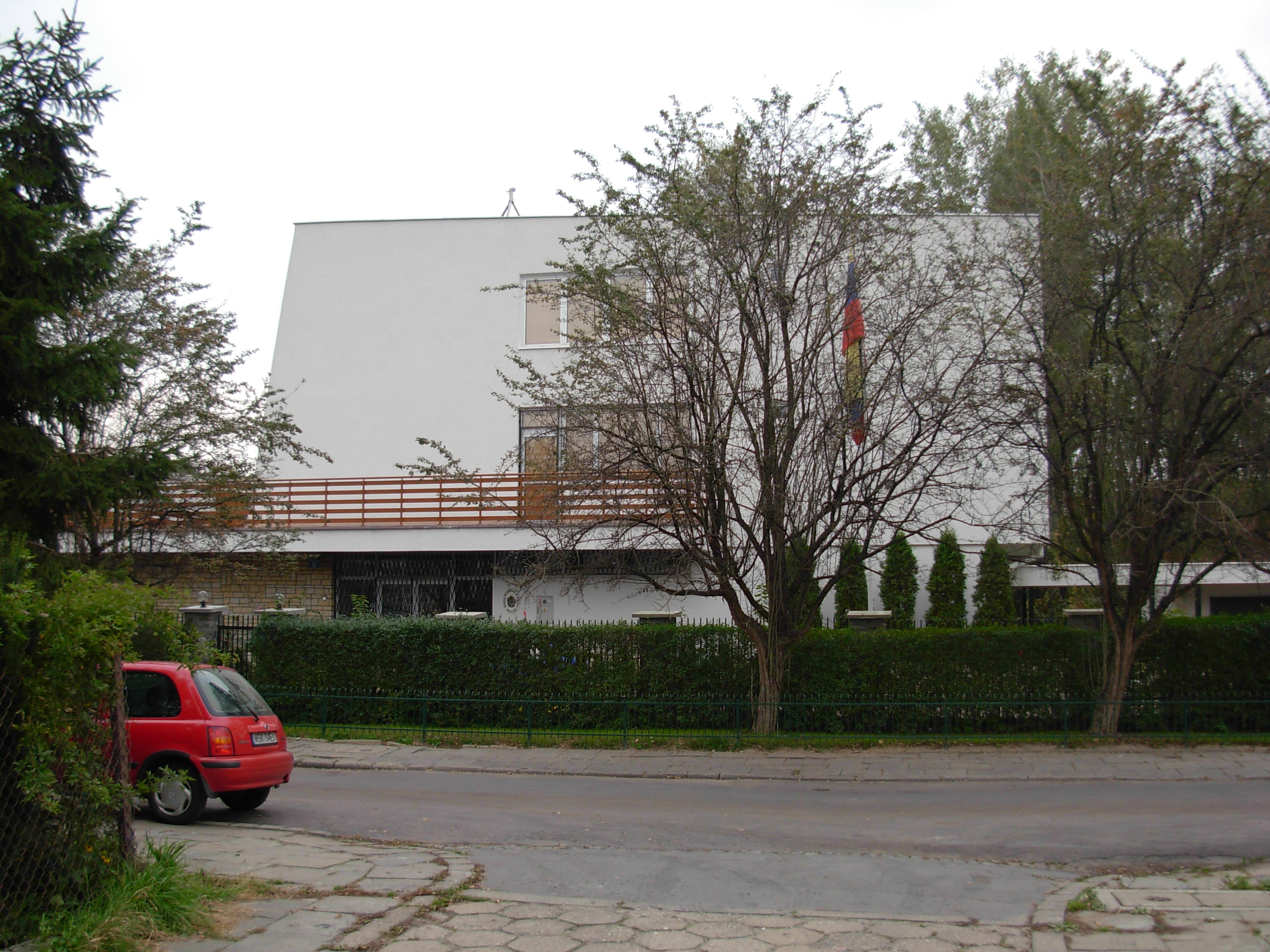 The main building of the Embassy of Venezuela in Warsaw with Ambassador's Residence and chancery, The Consular Division is located in other place